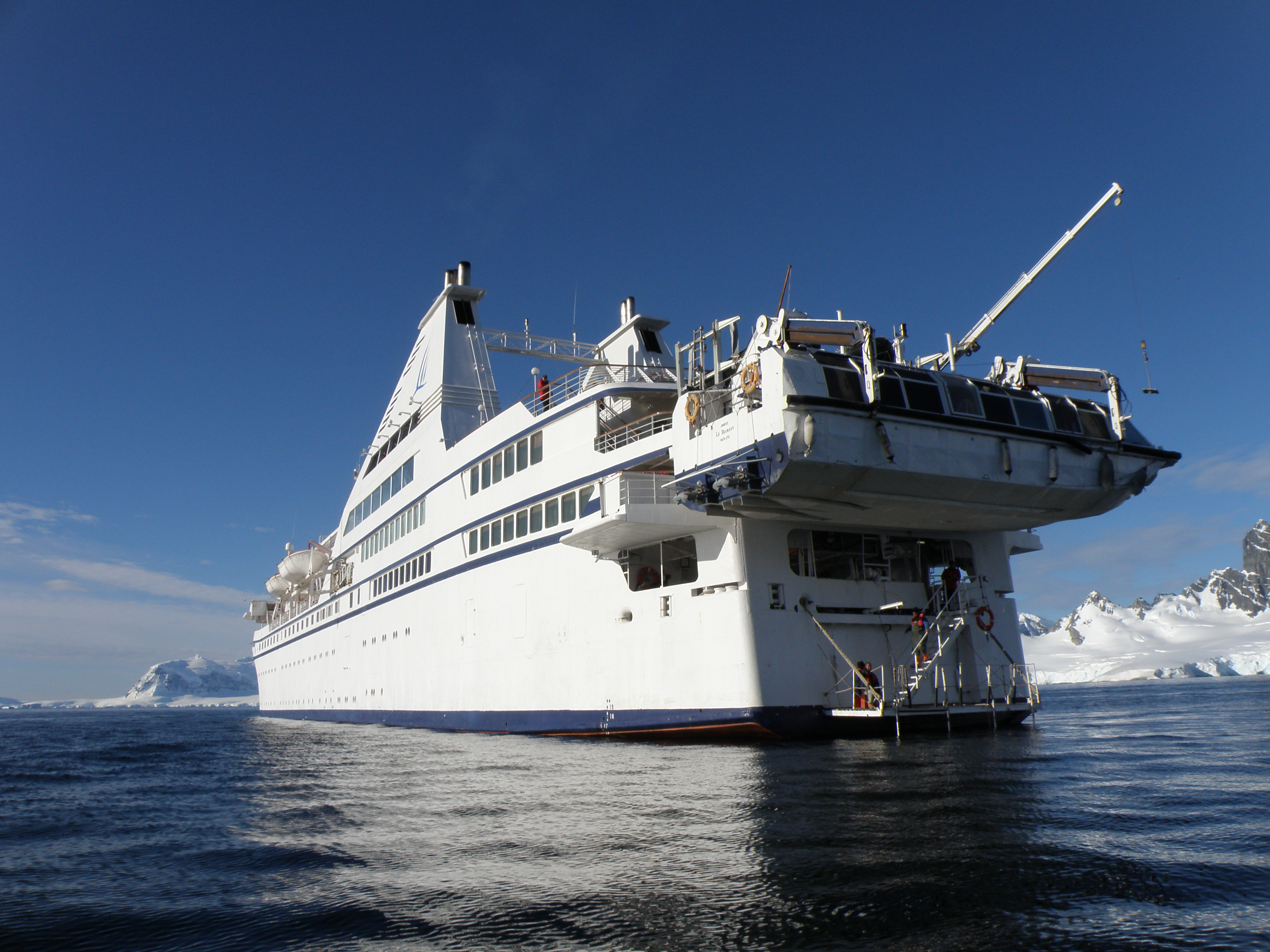 The Diamond from the rear, with the tender, the marina and the crane for the dinghies.